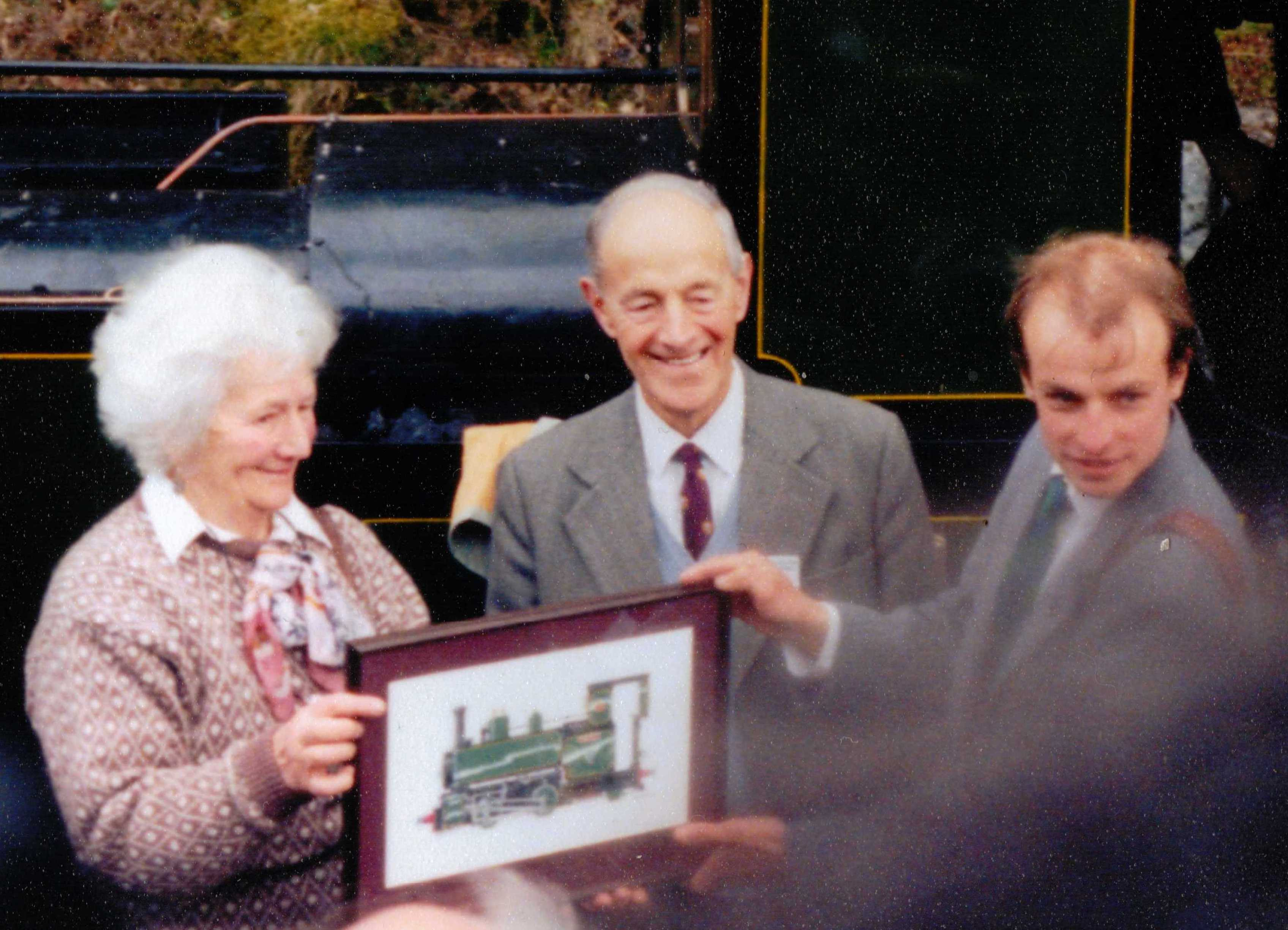 Sonia Rolt, at the naming of Tom Rolt, the Talyllyn Railway locomotive named after her late husband.